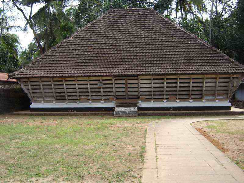 Thiruvegappura Mahakhethra's Koothambalam.